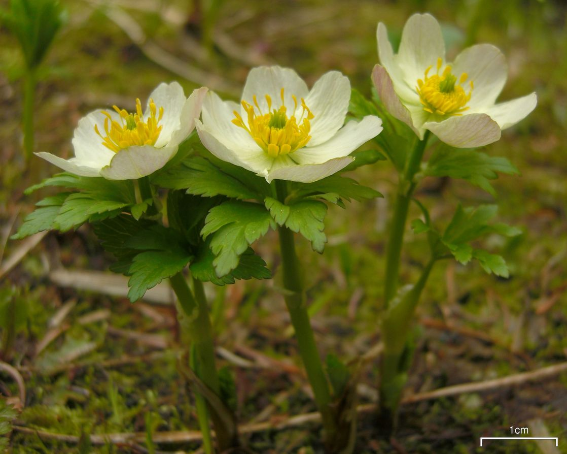 Trollius albiflorus Salisb. 20090629.35 Trophy Meadows, Wells Gray Park, BC